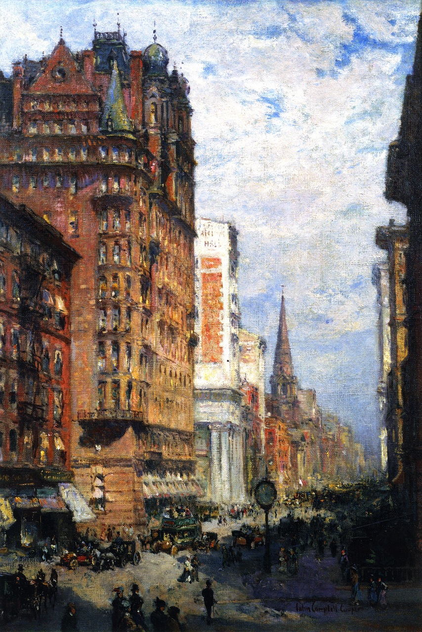 Fifth Avenue, New York City, Colin Campbell Cooper, oil on burlap, 39 x 27 in, New York Historical Society. The old Waldorf-Astoria Hotel is seen in this view, looking north between 33rd and 34th Streets. The Empire State Building now occupies the site.